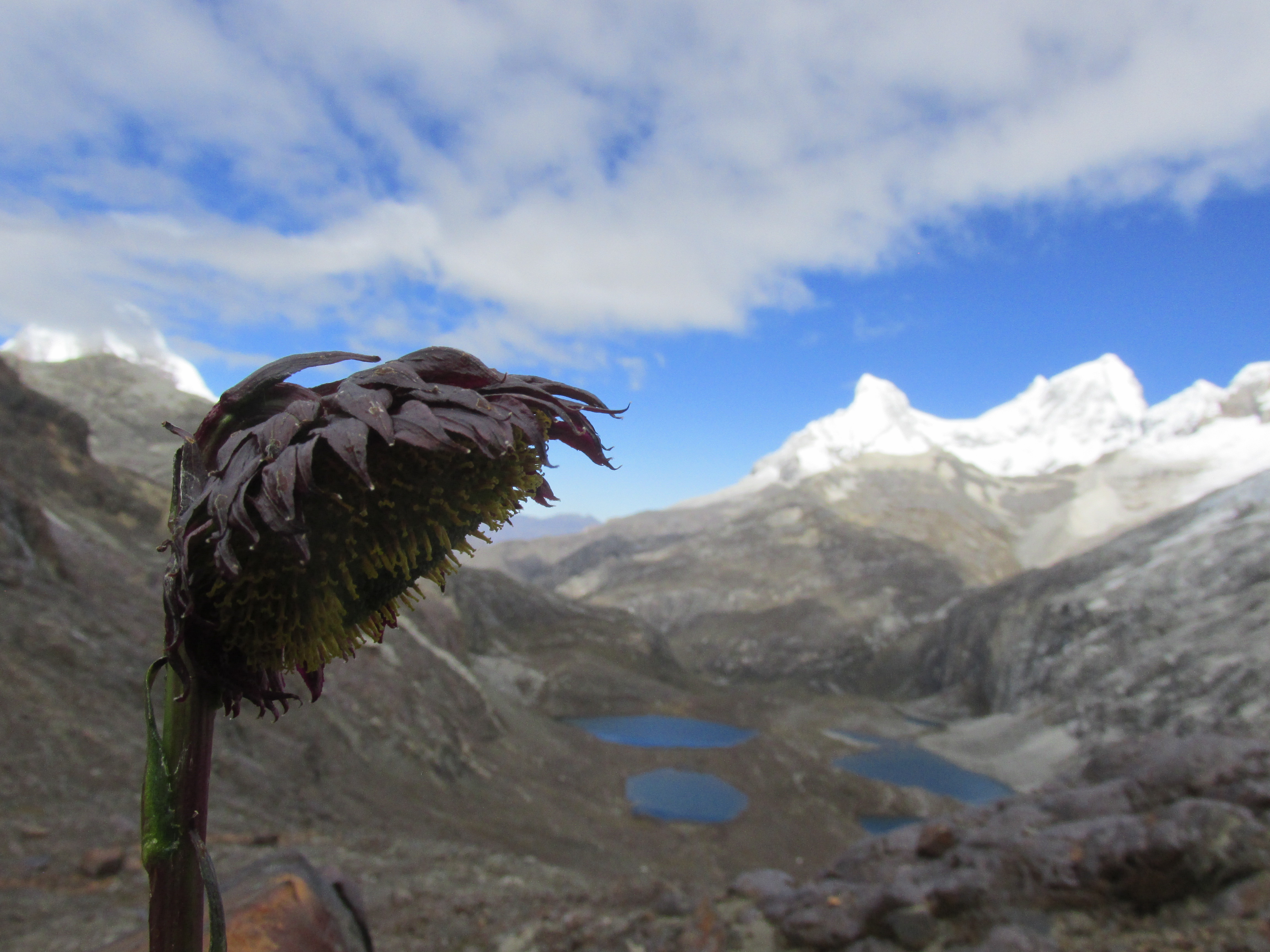 Inflorescencia de Senecio serratifolius